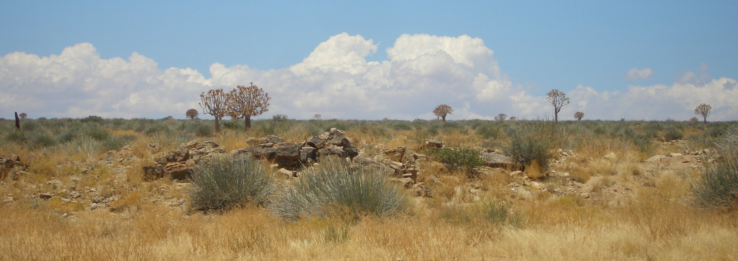 Köcherbäume in der namibischen Wüste in der Nähe des Fish River Canyons.